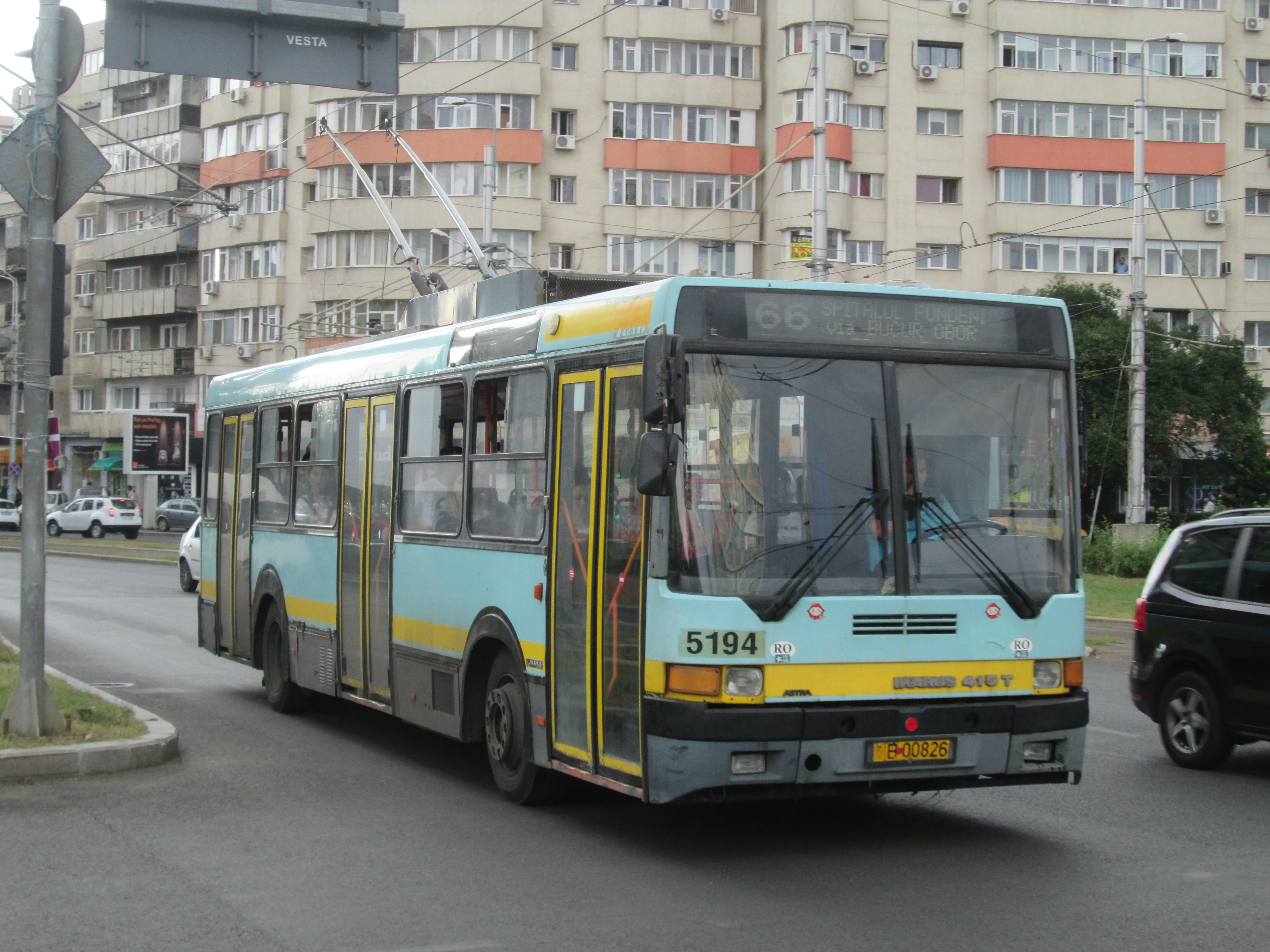 Ikarus 415T trolleybus 5194 of the STB (former RATB) on line 66 at Bucur Obor.